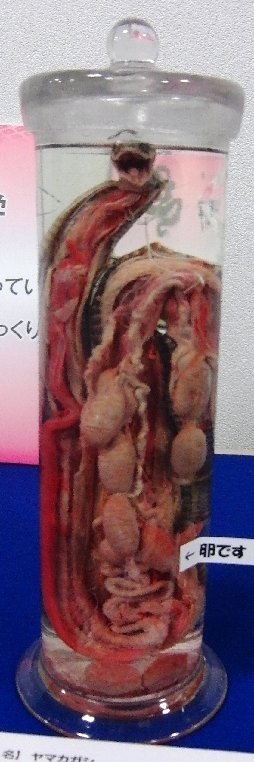 Dissection specimen of Rhabdophis tigrinus. Oviparity. Collection of the National Museum of Nature and Science, Tokyo, Japan. Exhibited in Planned Exhibition "2013,The New Year of the year of the Snake".